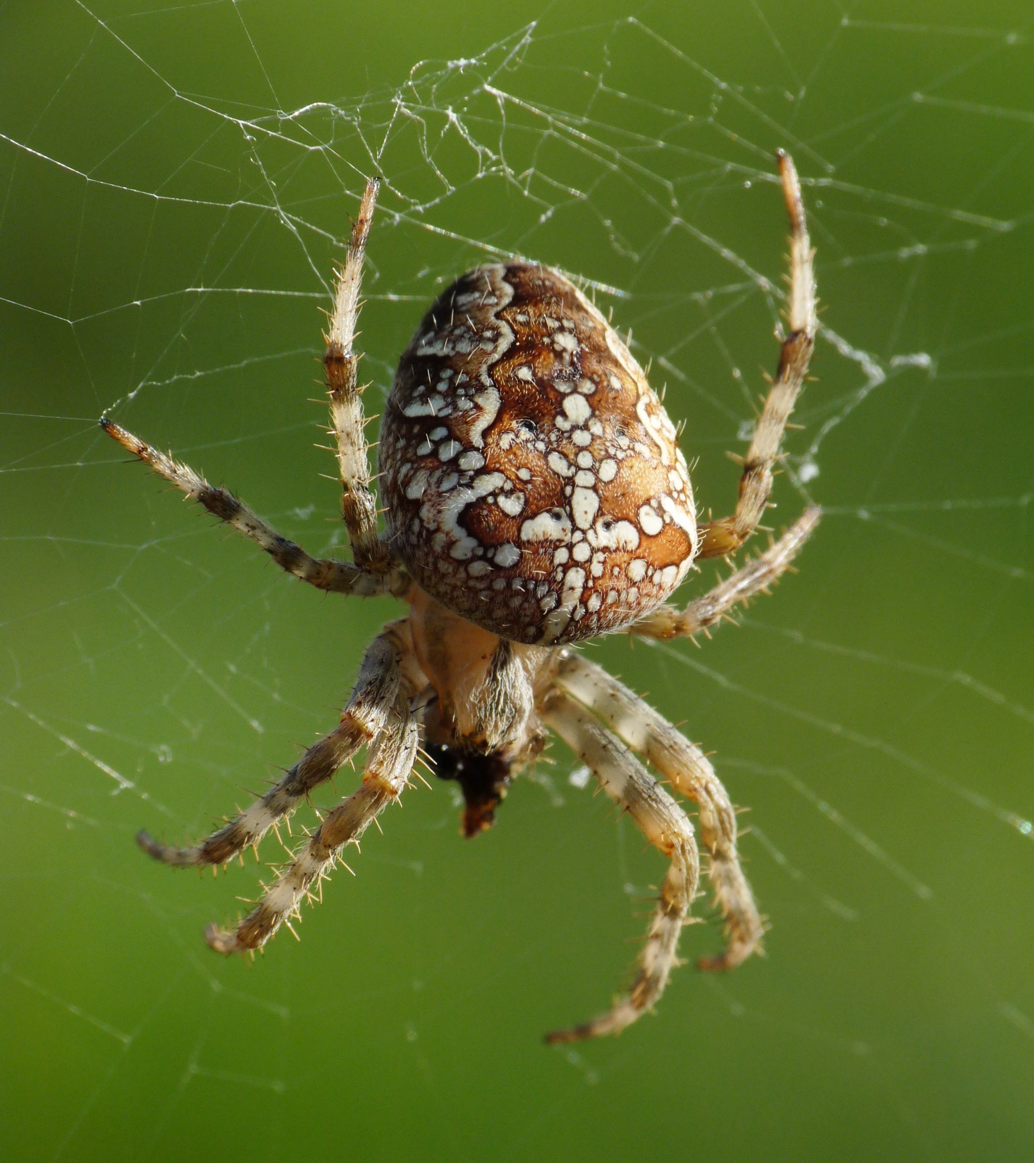 Araneus diadematus, near Livorno, Tuscany, Italy